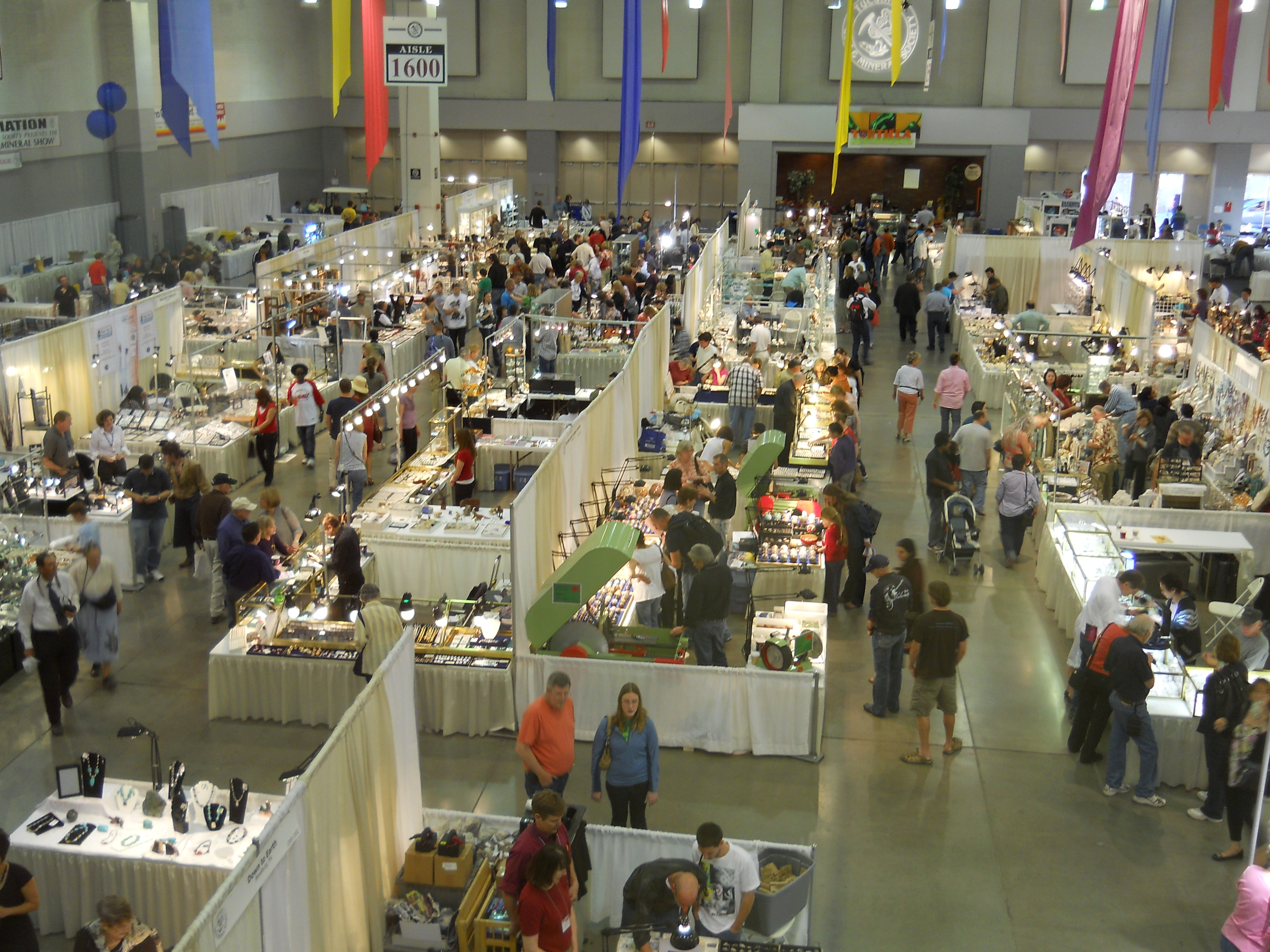 Overview of the TGMS Show TM